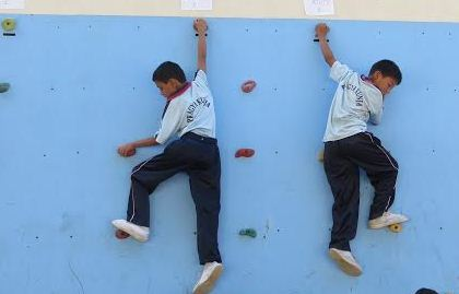 Wall Climbing